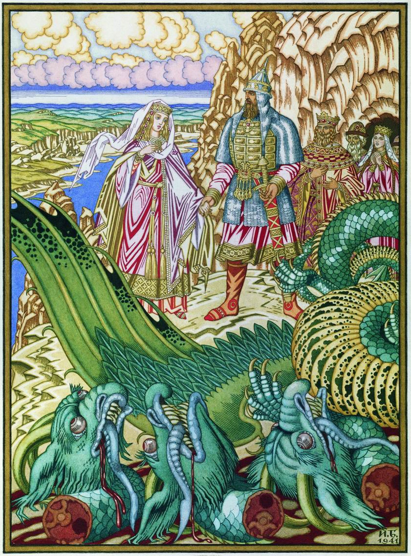 Dobrynya